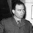 Khalid Muhyi al-Din in 1952-54. Egypt